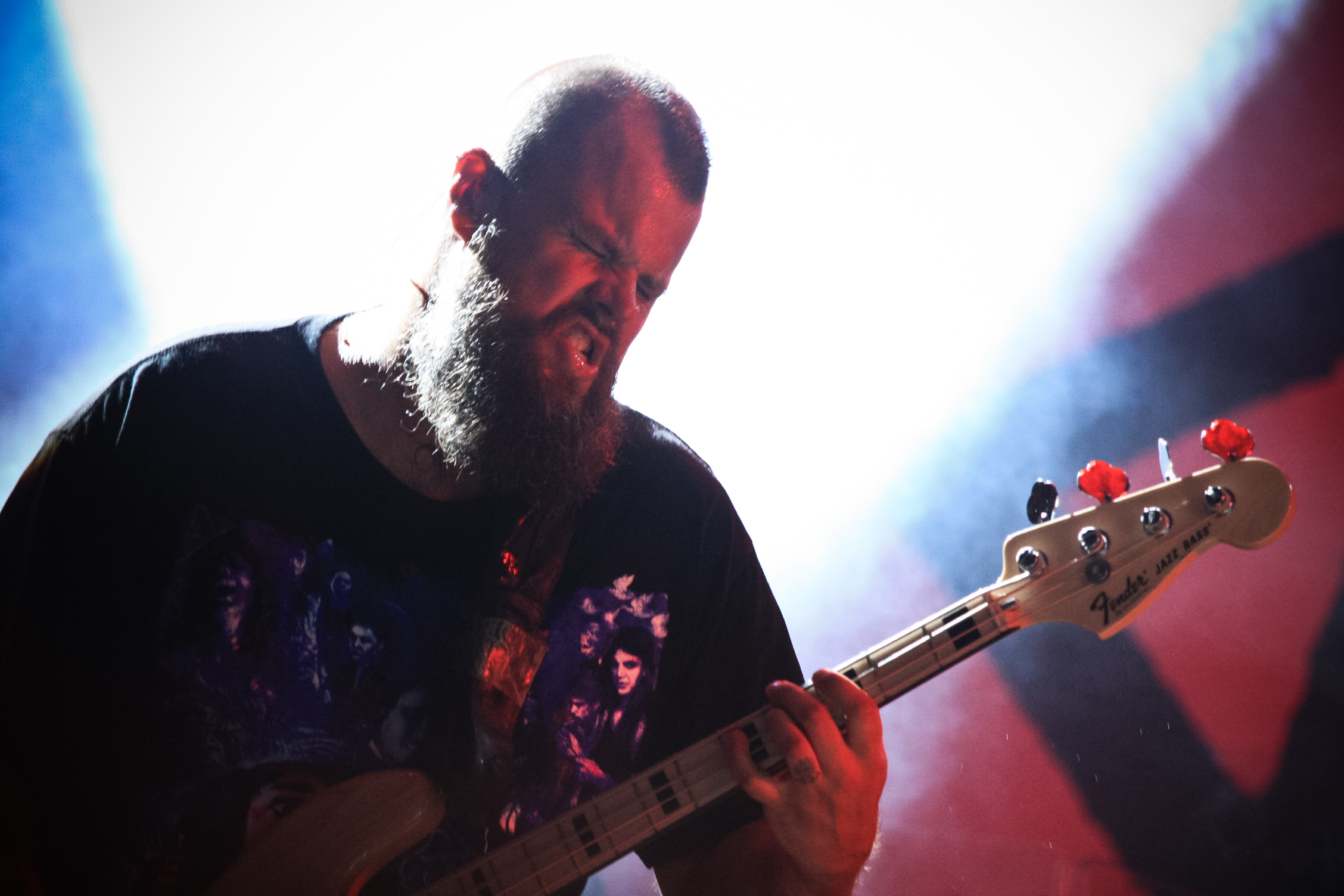 Mikko "Migé" Paananen peforming with HIM in 2013 at Qstock in Oulu, Finland.